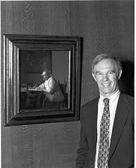 This is a picture from the National Gallery of Art in Washington DC of the Curator of Northern Baroque Art, Arthur K. Wheelock, Jr.